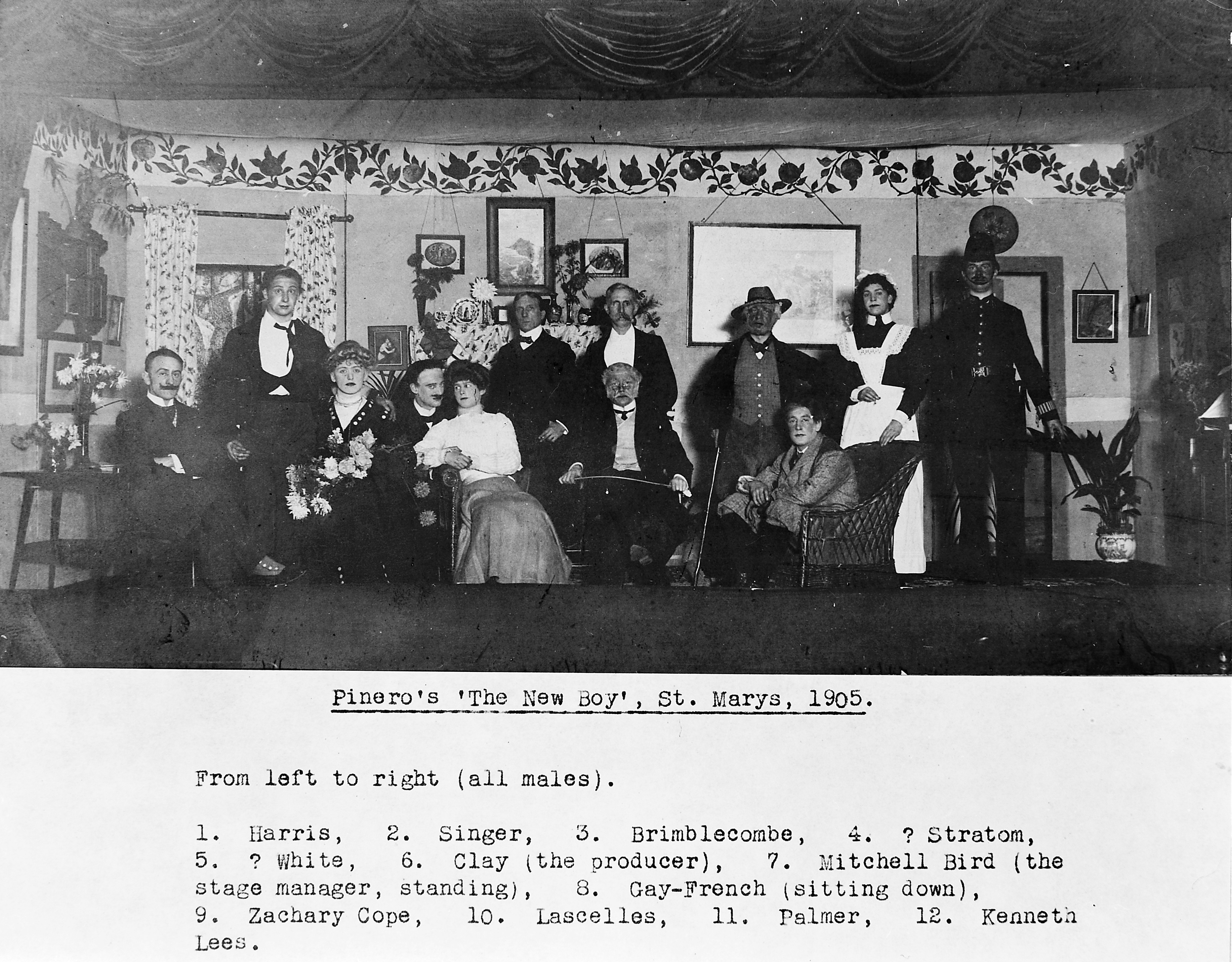 The cast of a play produced at St. Mary's Hospital entitled "The New Boy". The names from left to right as follows: 1 Harris, 2 Charles Singer, 3 Brimblecombe, 4 ?Stratous, 5 ?White, 6 Clay, the producer, 7 Mitchell Bird, Stage manager (standing), 8 Gay-French (seated), 9 Zachery Cope, 10 Lascelles, 11 Palmer, 12 Kenneth Lees. Wellcome Images Keywords: Cope, Zachary